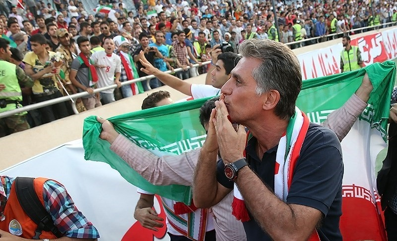 Iranian federation celebrated qualification to the 2014 FIFA World Cup